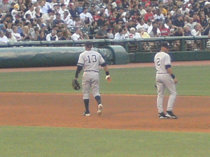 Derek Jeter and Alex Rodriguez, with their backs turned at Progressive Field, July 29th, 2010